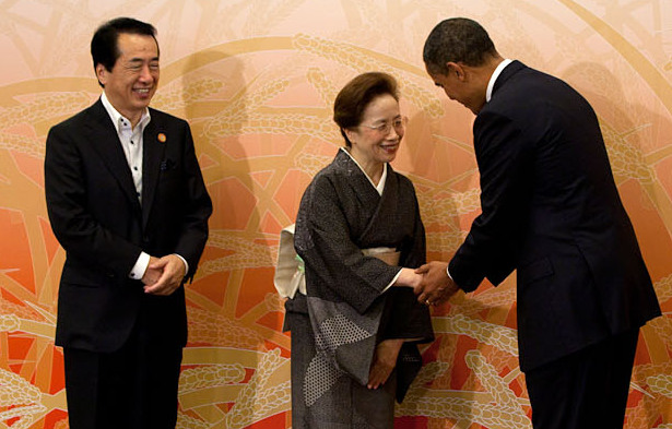 Naoto Kan, Prime Minister, and Nobuko Kan greeted Barack Obama, President, prior to the Asia-Pacific Economic Cooperation dinner at the Pacifico Yokohama in Yokohama City, Kanagawa Prefecture on November 13, 2010.